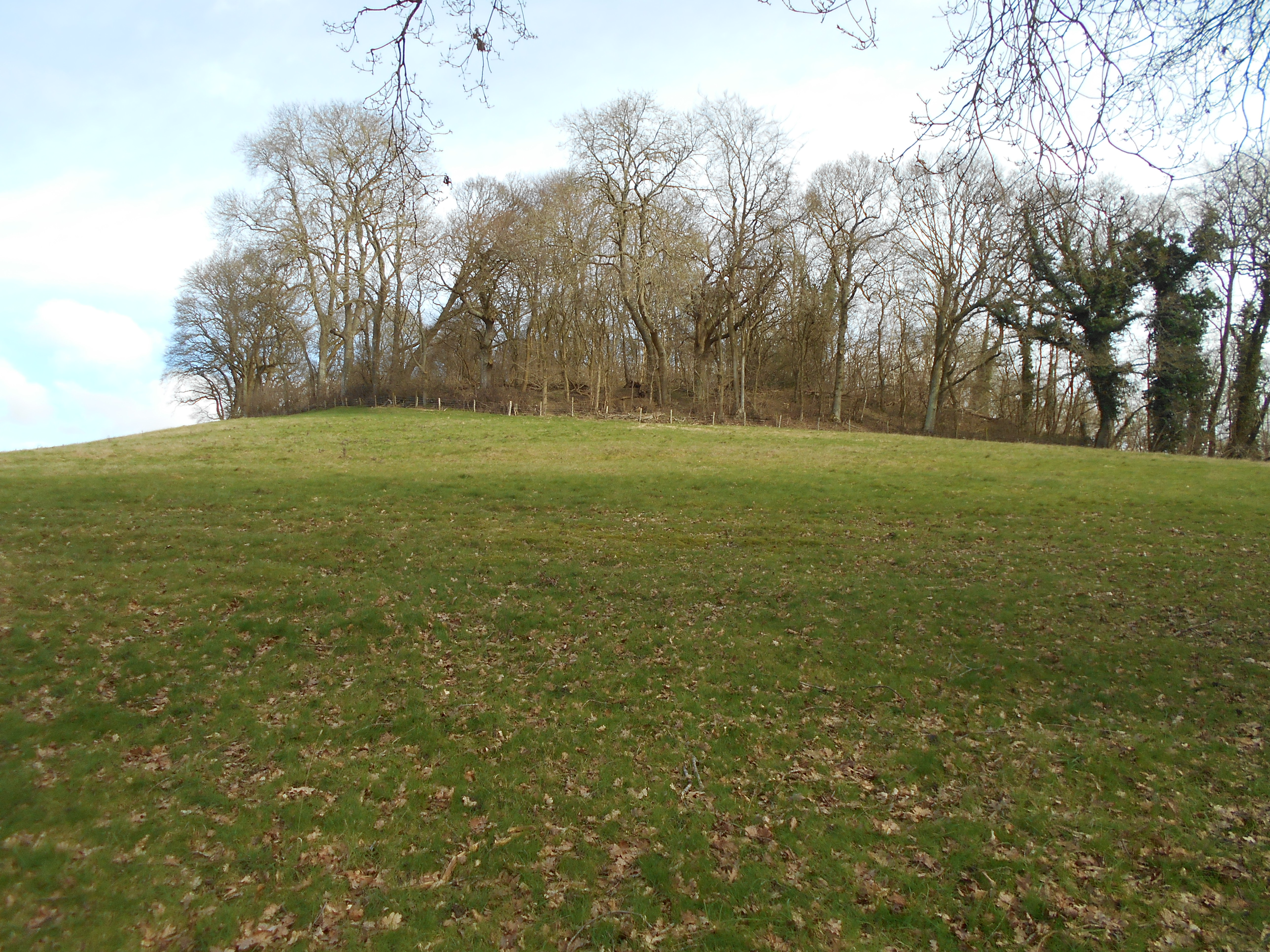 King John's Hill, in Worldham Parish, Hampshire. The hill was an Iron Age hillfort, with a later medieval hunting lodge attributed to King John.